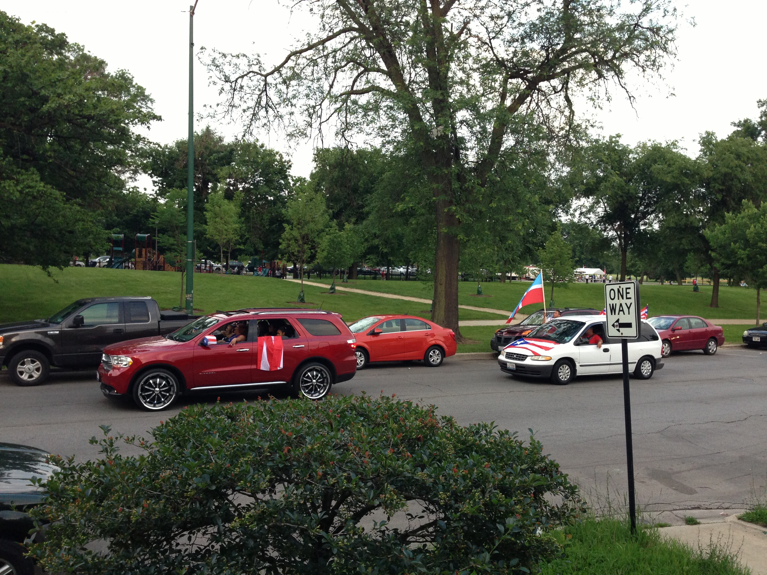 Personal photograph of Fiestas Puertorriquenas: 1234 N. Kedzie Ave. Chicago, IL 60651